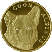 Coin of Kazakhstan